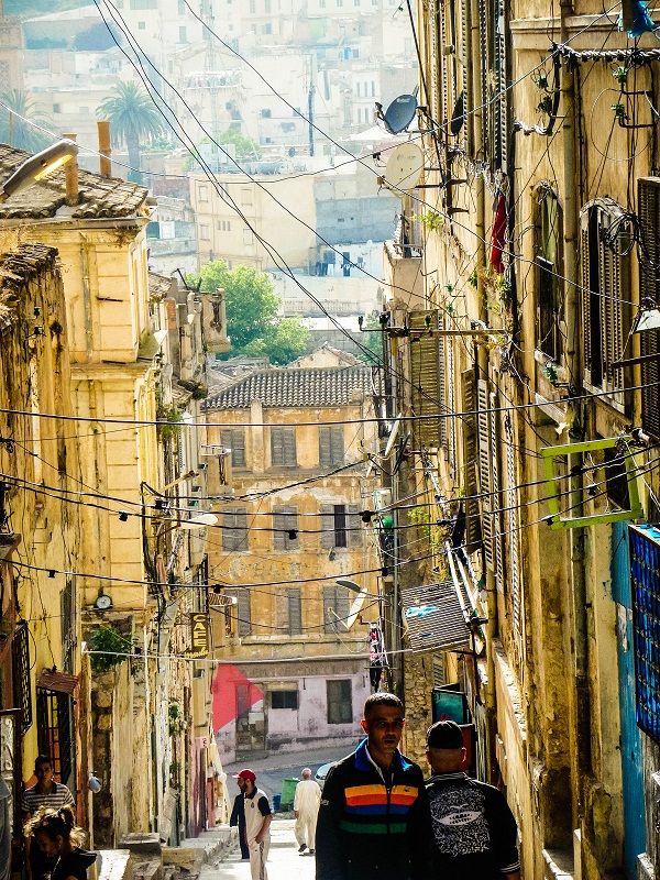 Wiki loves Wahran